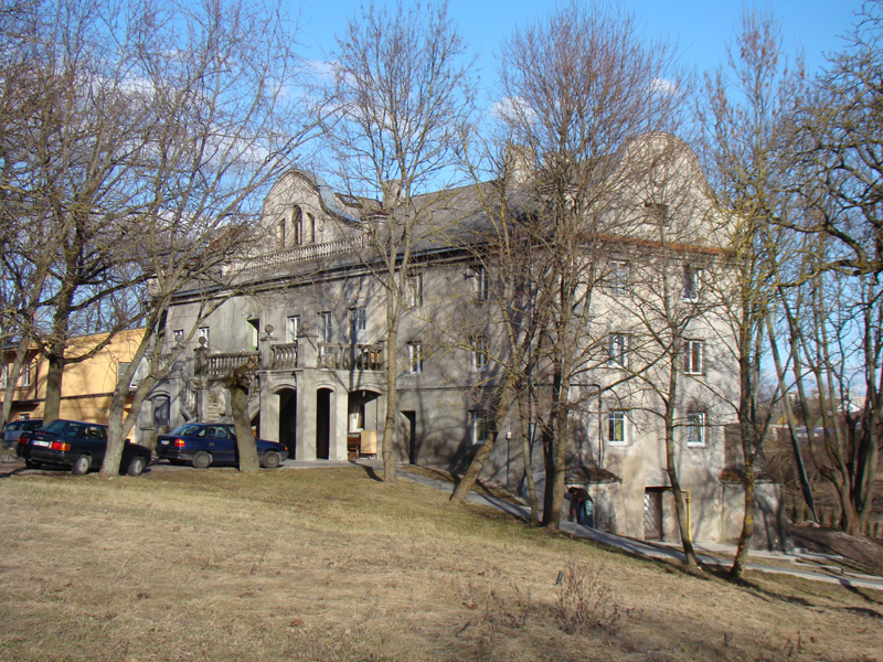 Linkuva estate